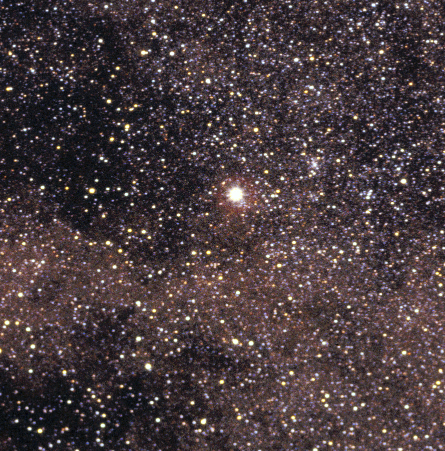 In a wide-field image obtained with an Hasselblad 2000 FC camera by Claus Madsen (ESO), a region around the Southern Cross, seen in the right of the image (Kodak Ektachrome 200, 70 min exposure time). Alpha Centauri is the bright yellowish star seen at the middle left, one of the "Pointers" to the star at the top of the Southern Cross.